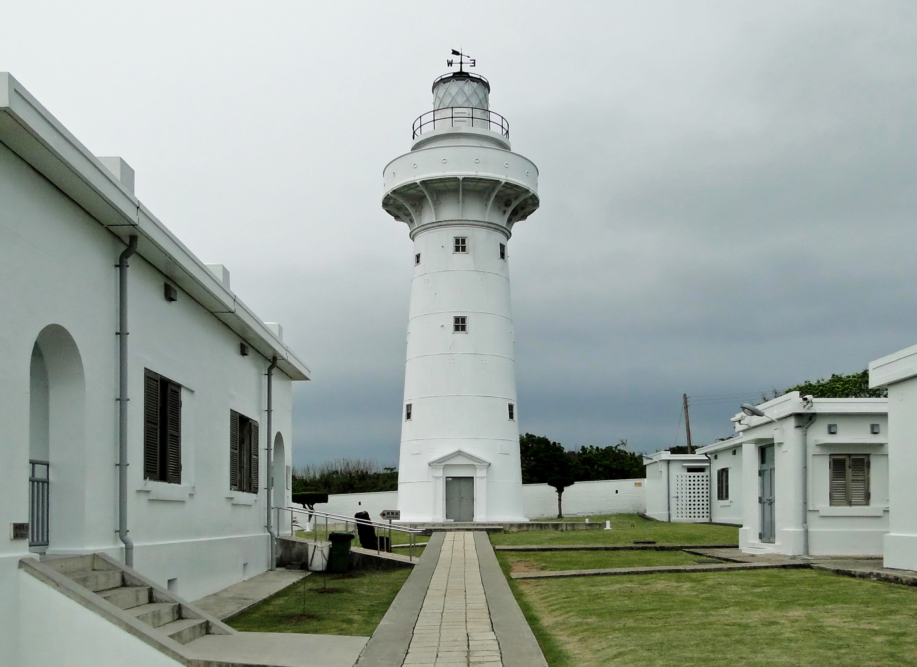 Eluanbi Lighthouse, Kenting National Park , Taiwan